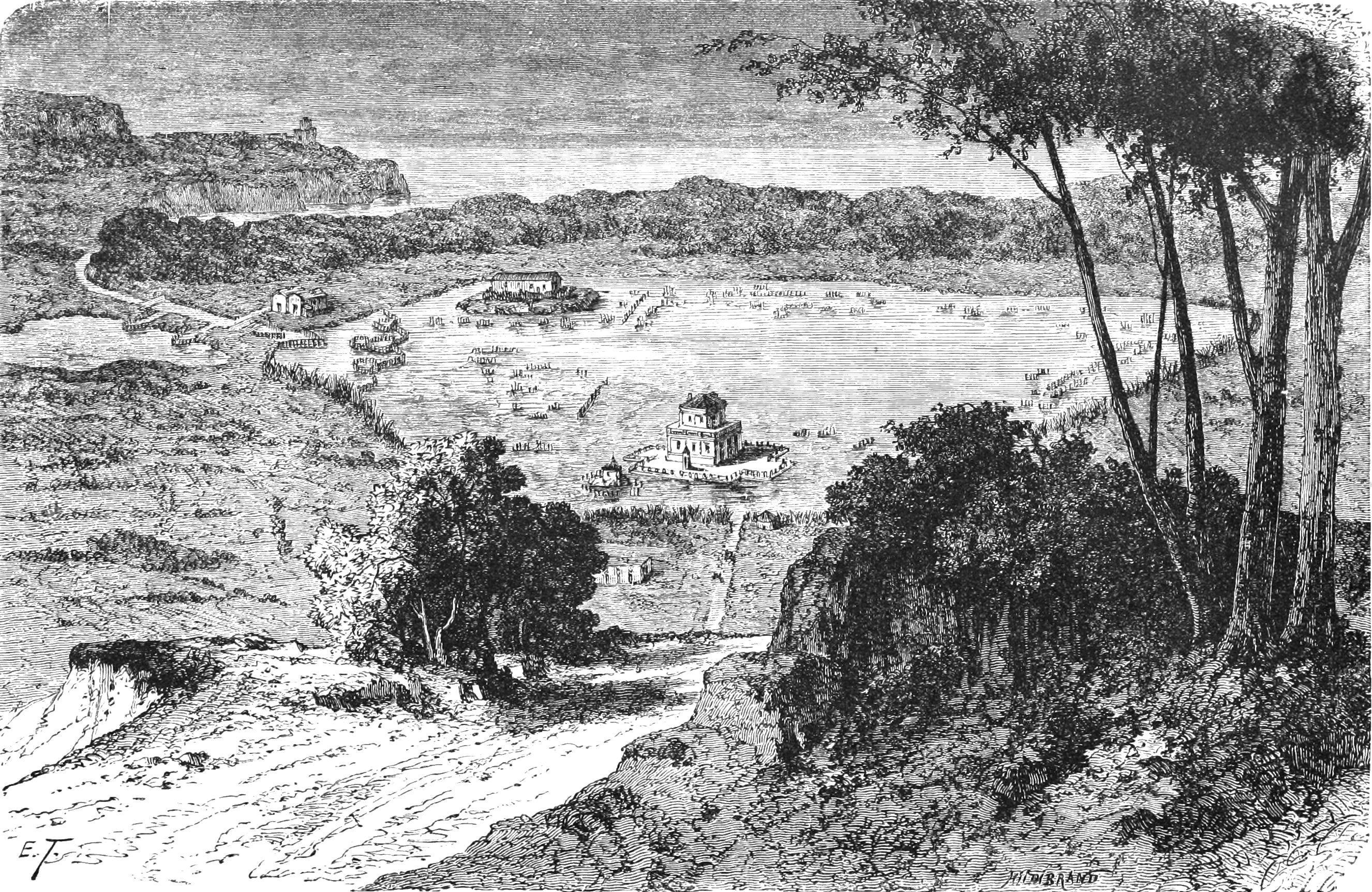 Lake Fusaro and its oyster plantations